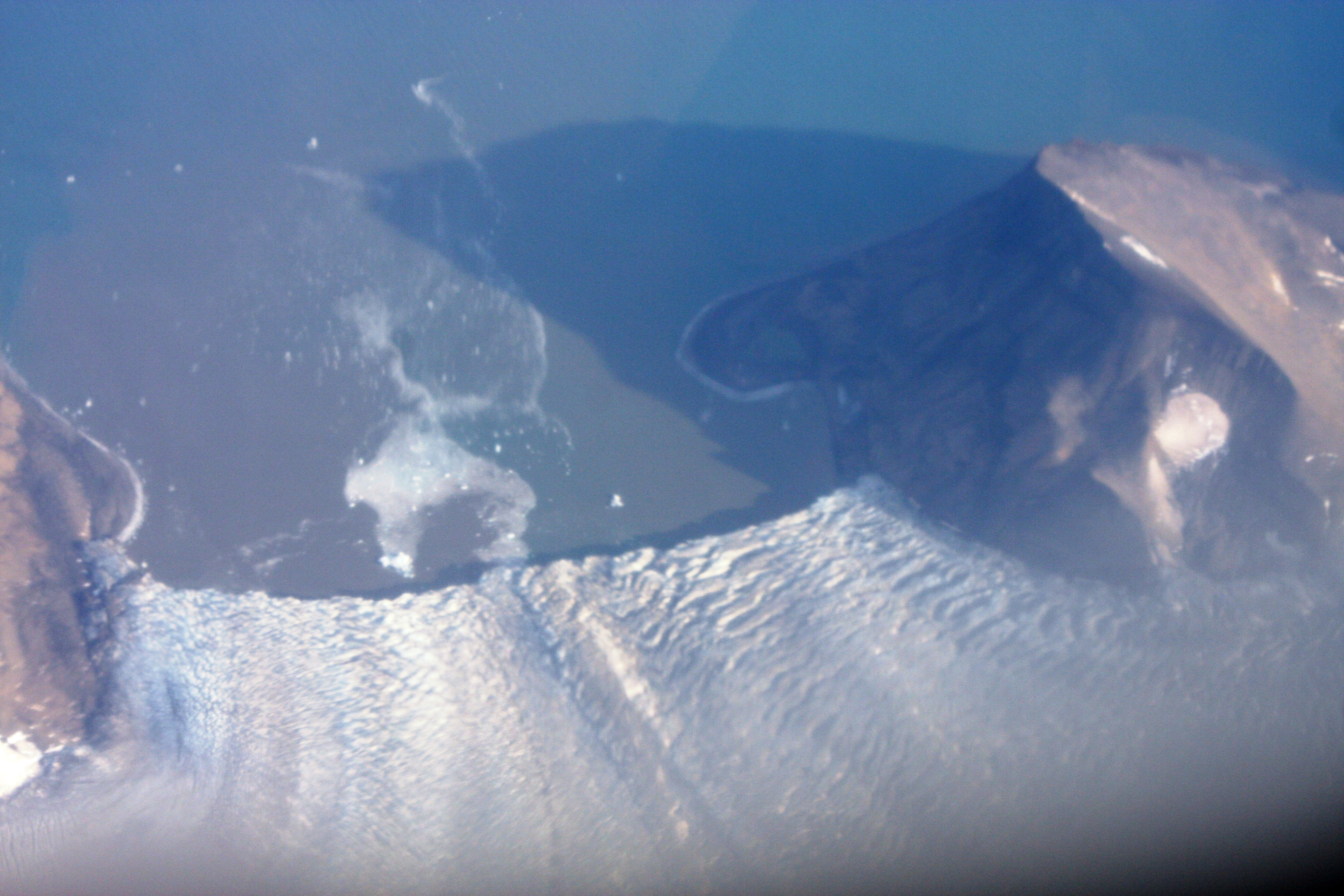 East coast of Torell Land, southeastern Spitsbergen